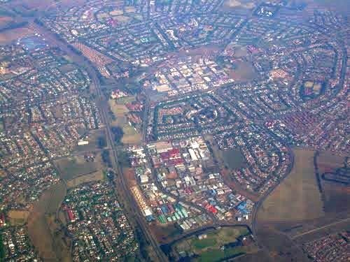 Vanderbijlpark North from the air